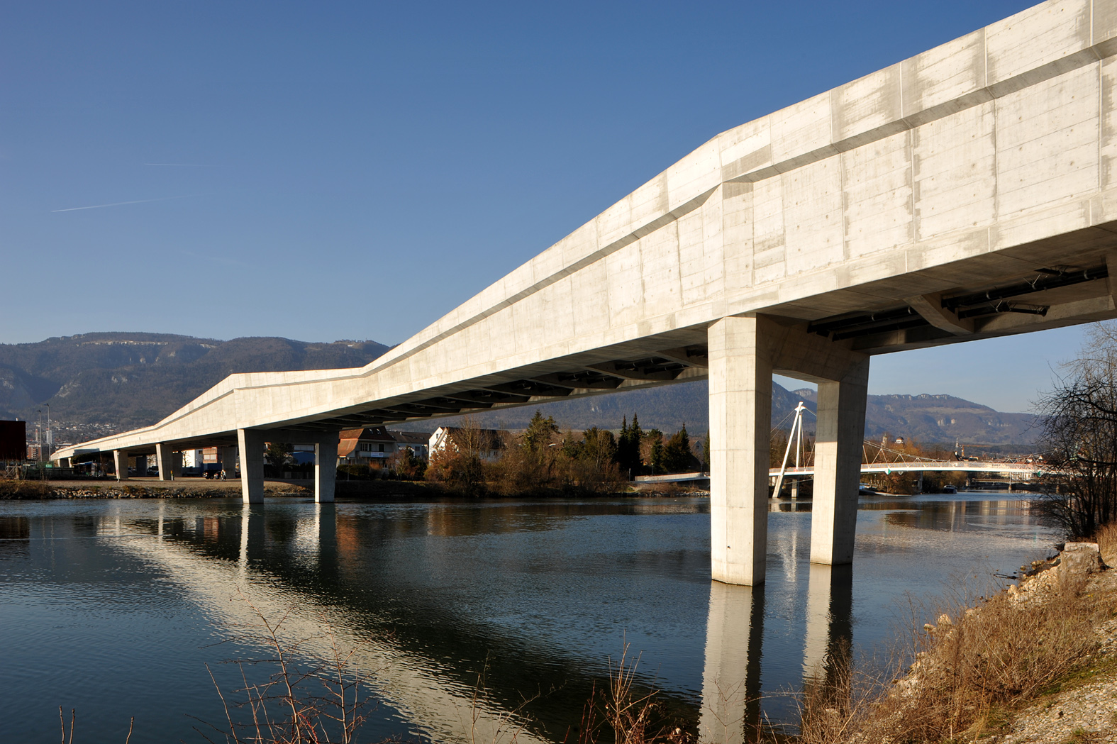 New Aarebrücke of the western bypass in Solothurn, Switzerland. In the background the also new foot and bicycle bridge Aaresteg.